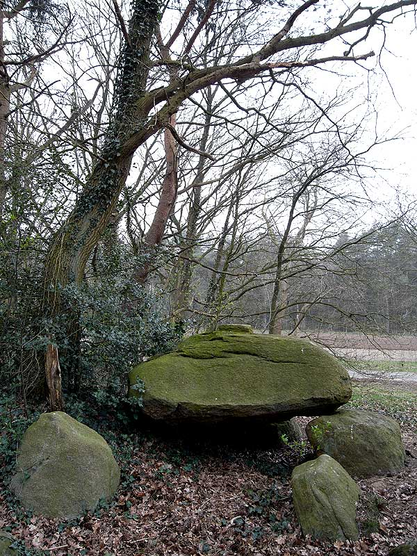 Hünensteine bei Axstedt